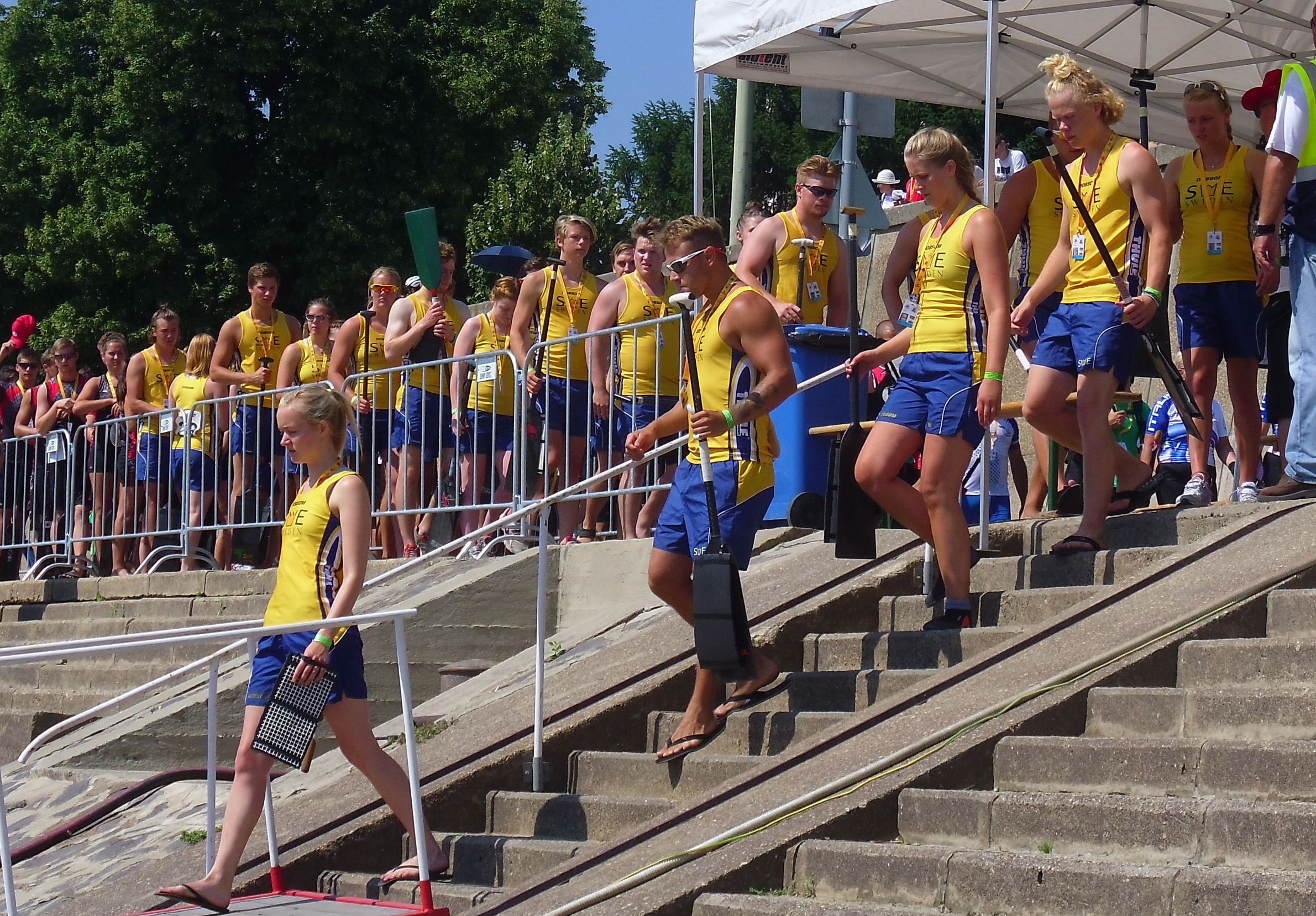 IDBF World Dragon Boat Racing Championships 2013 in Szeged, Hungary. Swedish team before entering the 2000 meter races.